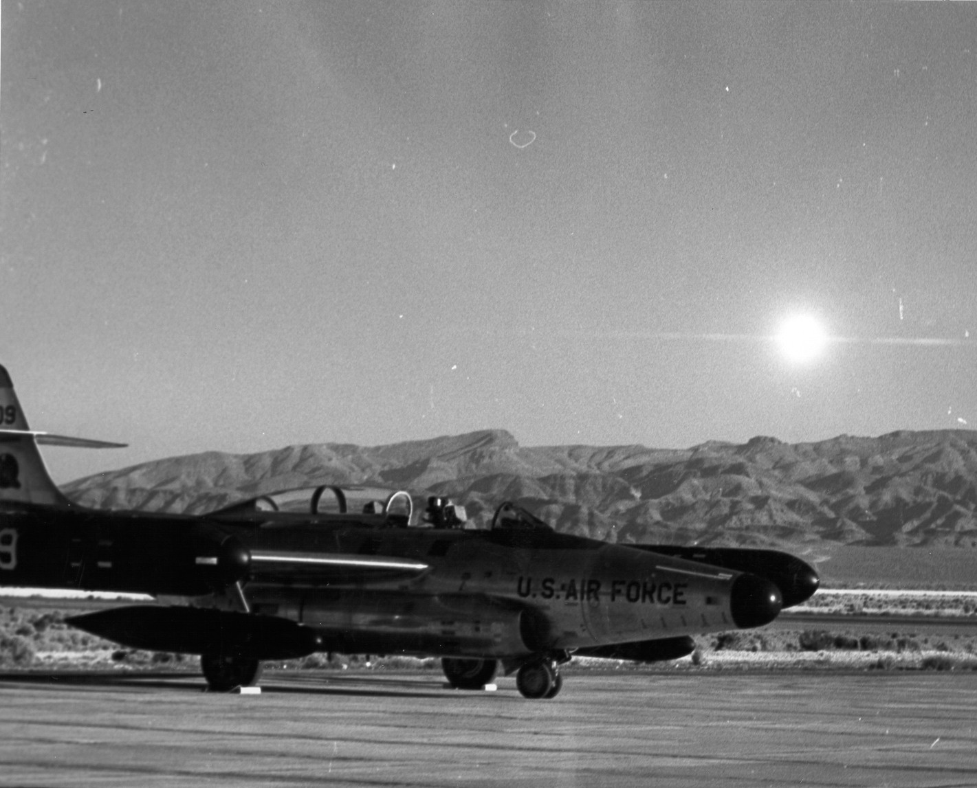 Operation Plumbbob - John test. LAS VEGAS, NV. Test of an AIR-2A Genie nuclear air-to-air rocket. The flash of the exploding nuclear warhead is shown as a bright sun in the eastern sky at 7:30 a.m. July 19, 1957 at Indian Springs Air Force Base, some 30 miles away from the point of detonation. A Scorpion, sister ship of the launching aircraft, is in the foreground. Test officials said that the operation was fully successful, including accuracy in achieving detonation at the desired point in space, and including gathering of data on various weapons effects experiments. No fallout, other than negligible traces, was reported by off-site AEC radiological monitors.